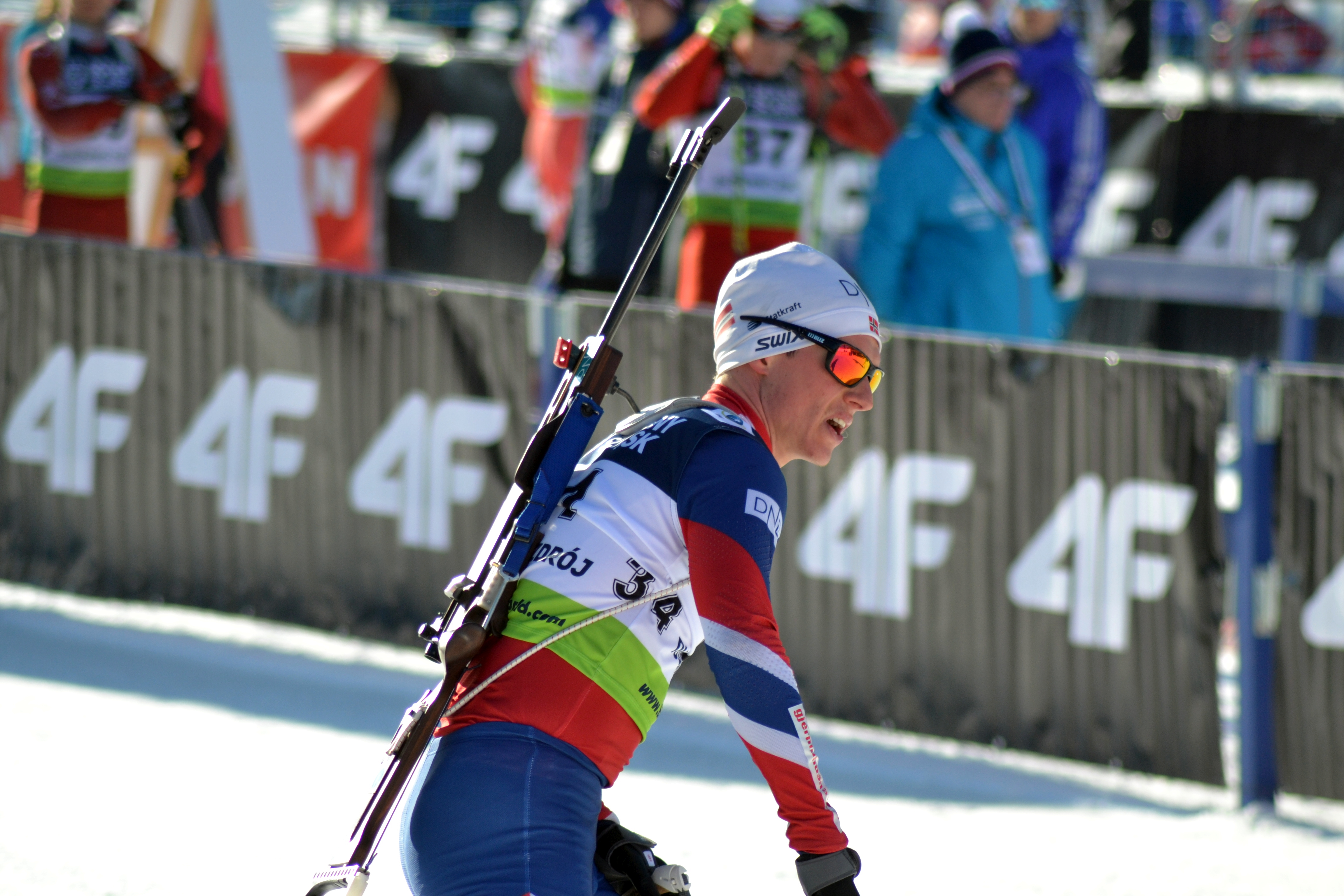 Open European Championships Biathlon 2017, Sprint Men's race, held on January 27th.